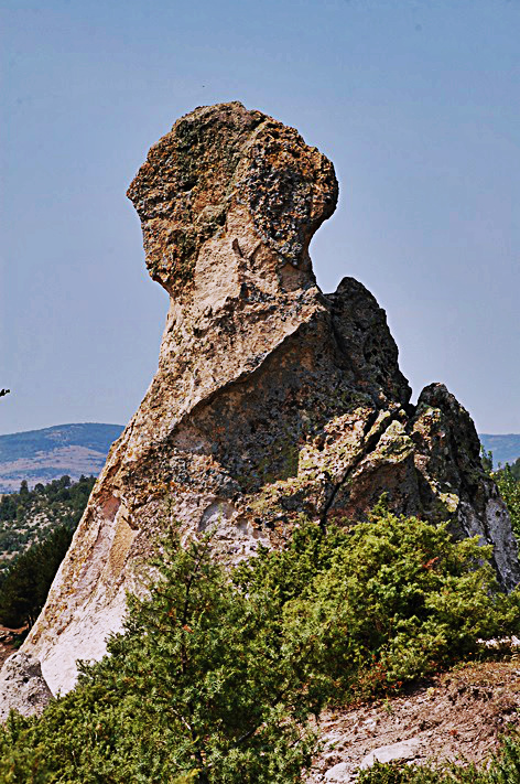 AdamKaya BG